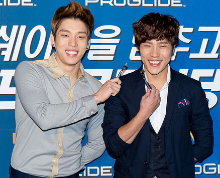 Hommes (South Korean band) at Gillette Fusion Proglide launching event in Seoul, South Korea, in September 2011